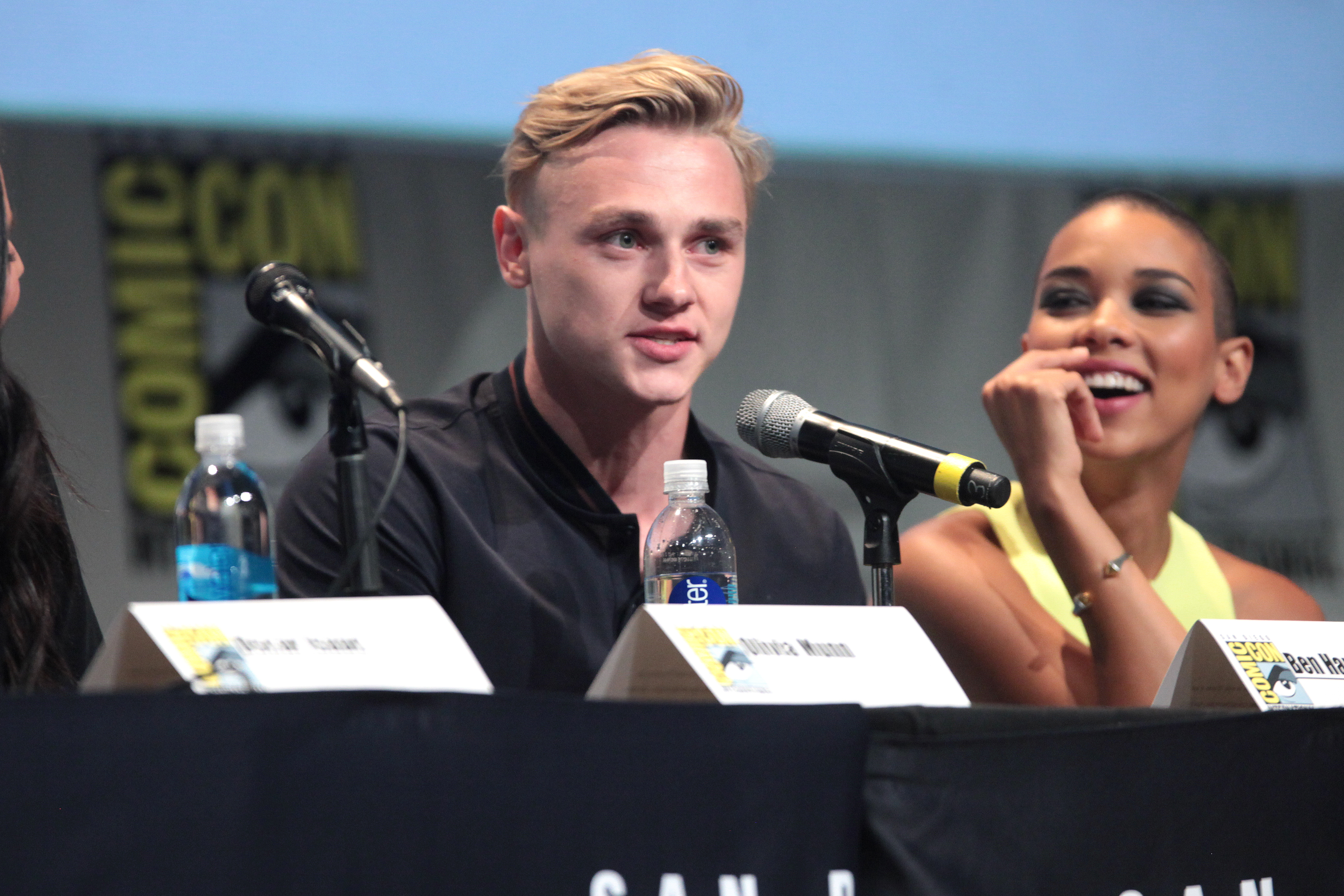 Ben Hardy and Alexandra Shipp speaking at the 2015 San Diego Comic Con International, for "X-Men: Apocalypse", at the San Diego Convention Center in San Diego, California.